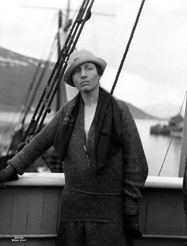 Louise Boyd, the American photographer and polar explarer, pictured in Tromsø harbour on June 28, 1928.